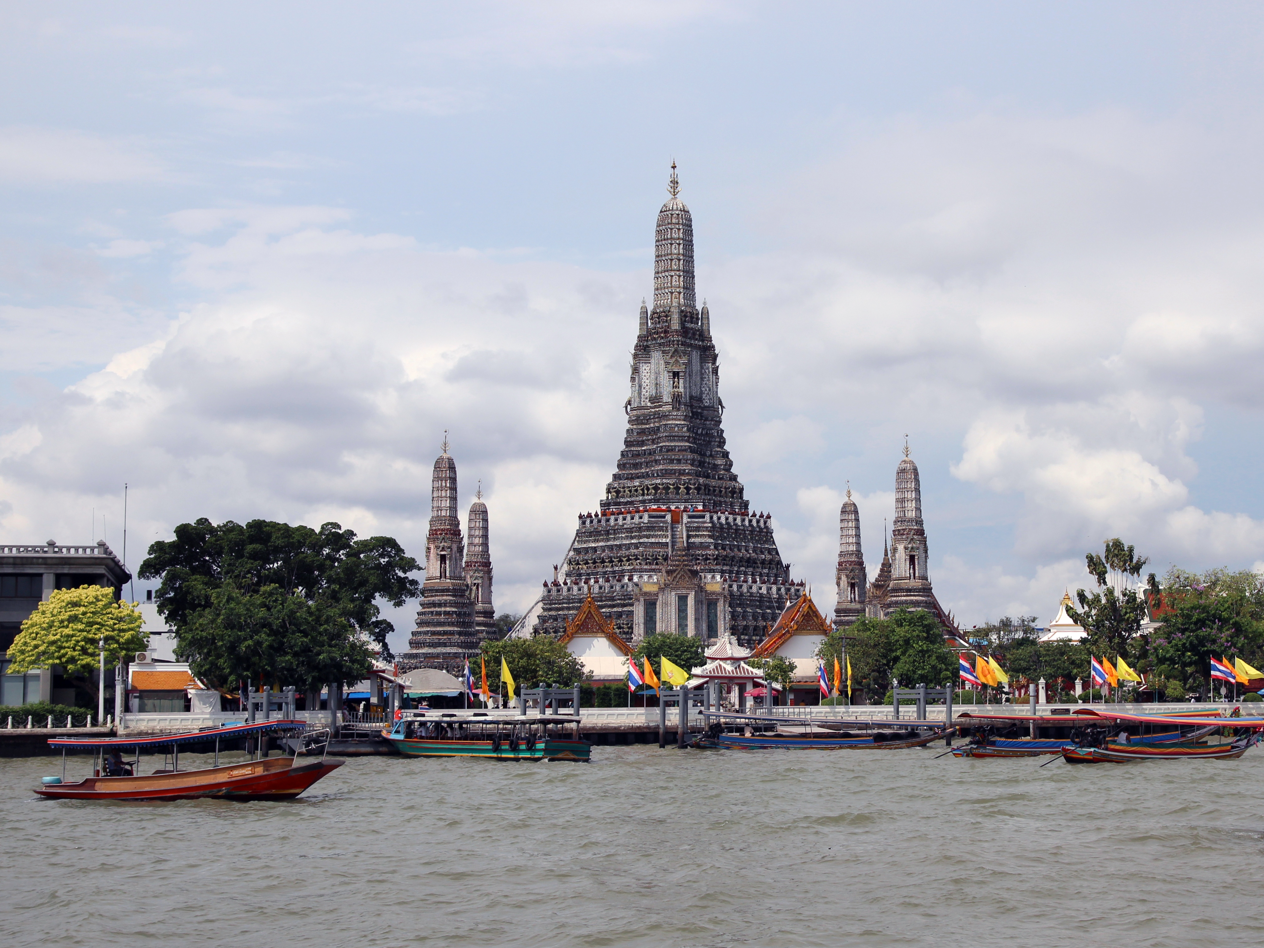 Wat Arun at Chao Phraya River in Bangkok, Thailand.